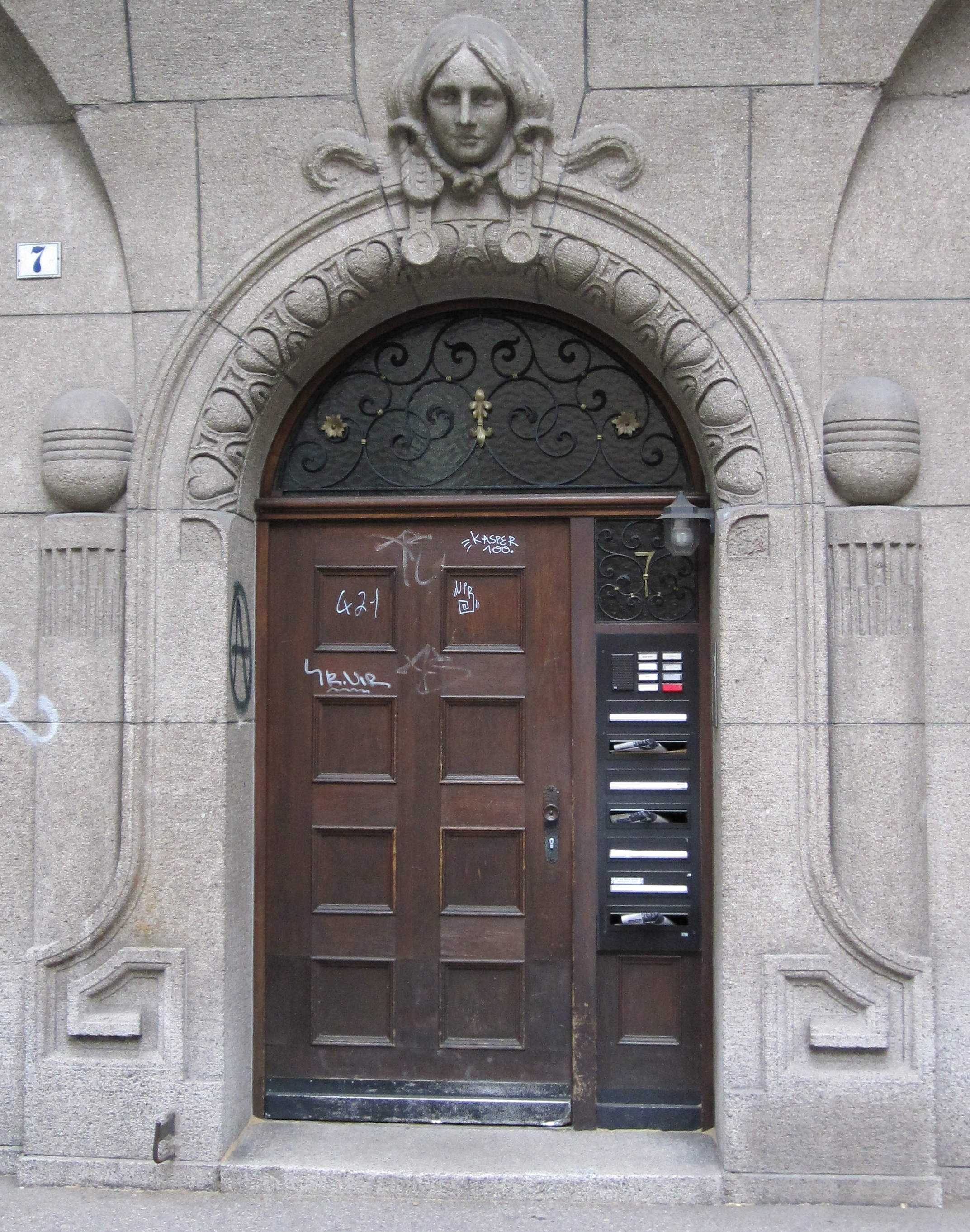 Concrete architectural sculptures and elements.